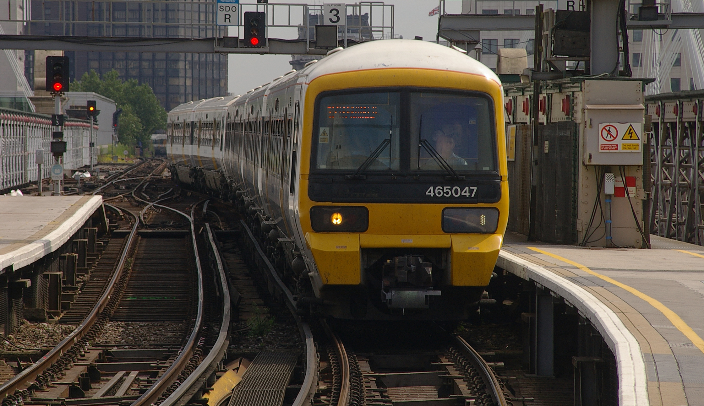 Southeastern unit 465047 arrives at London Charing Cross railway station.